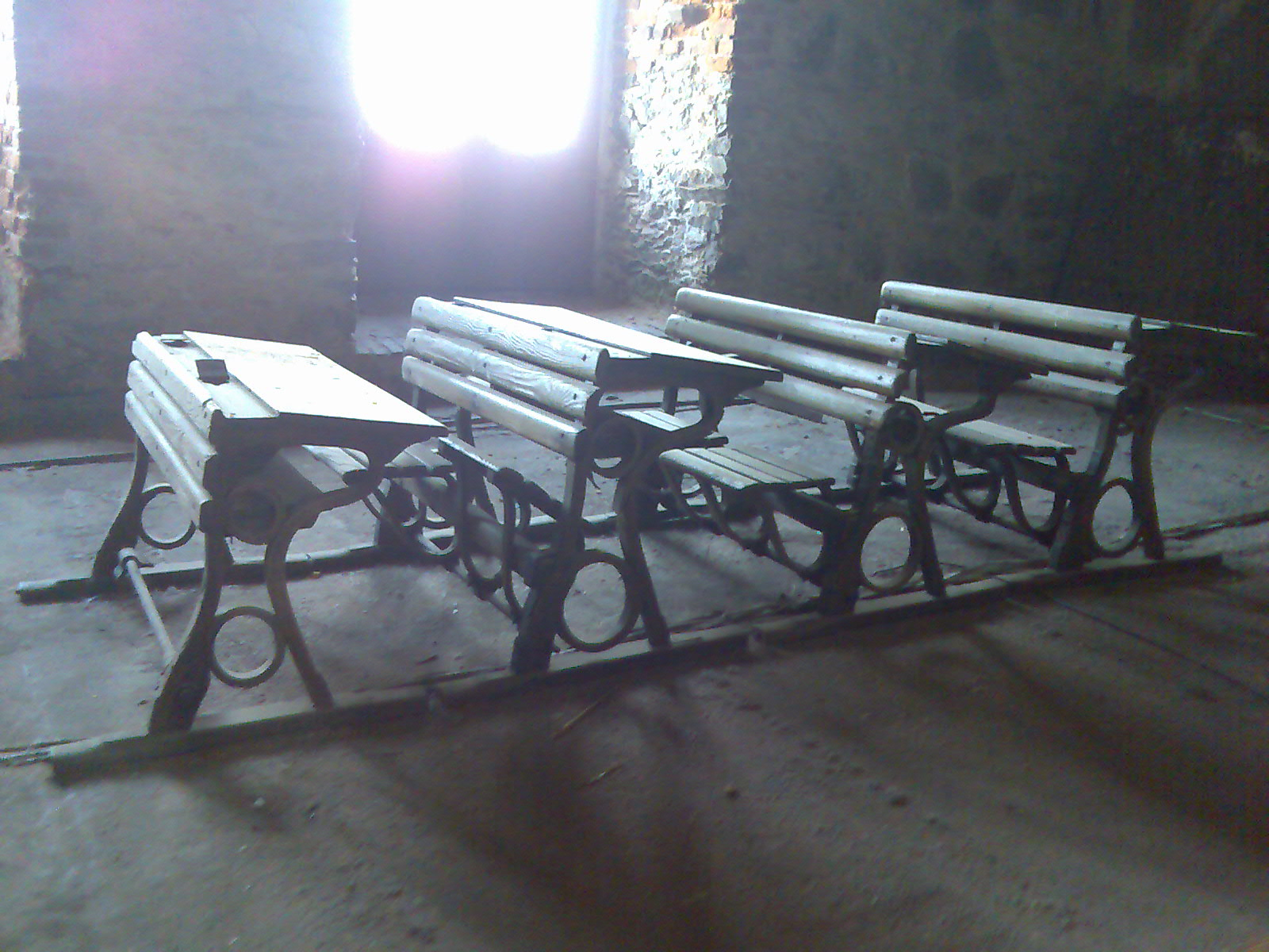 Historic school benches in Kunětická hora castle, Czech Republic.